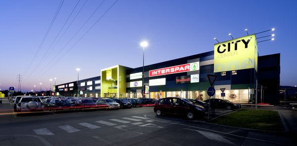 City Center one West - exterior